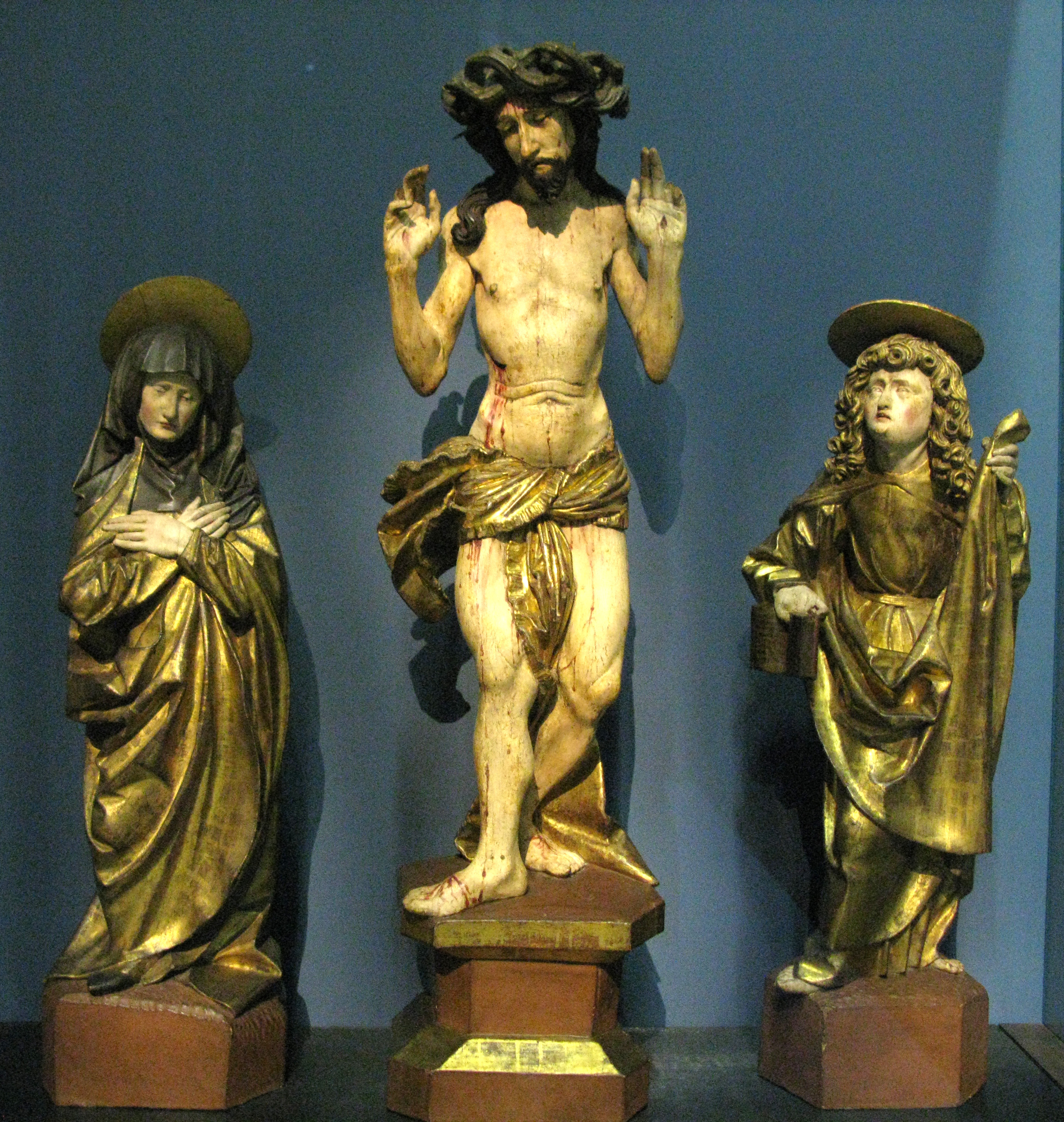 Man of Sorrows between Mary and St. John. Wooden carved figures which originally belonged to the Three-Kings-Altar made 1505 by Johann Wydyz sponsored by chancellor Konrad Stürtzel von Buchheim for his home chapell and which is in the Freiburg Minster today. Augustinermuseum Freiburg, Inv. No. S 001 a-c/M.